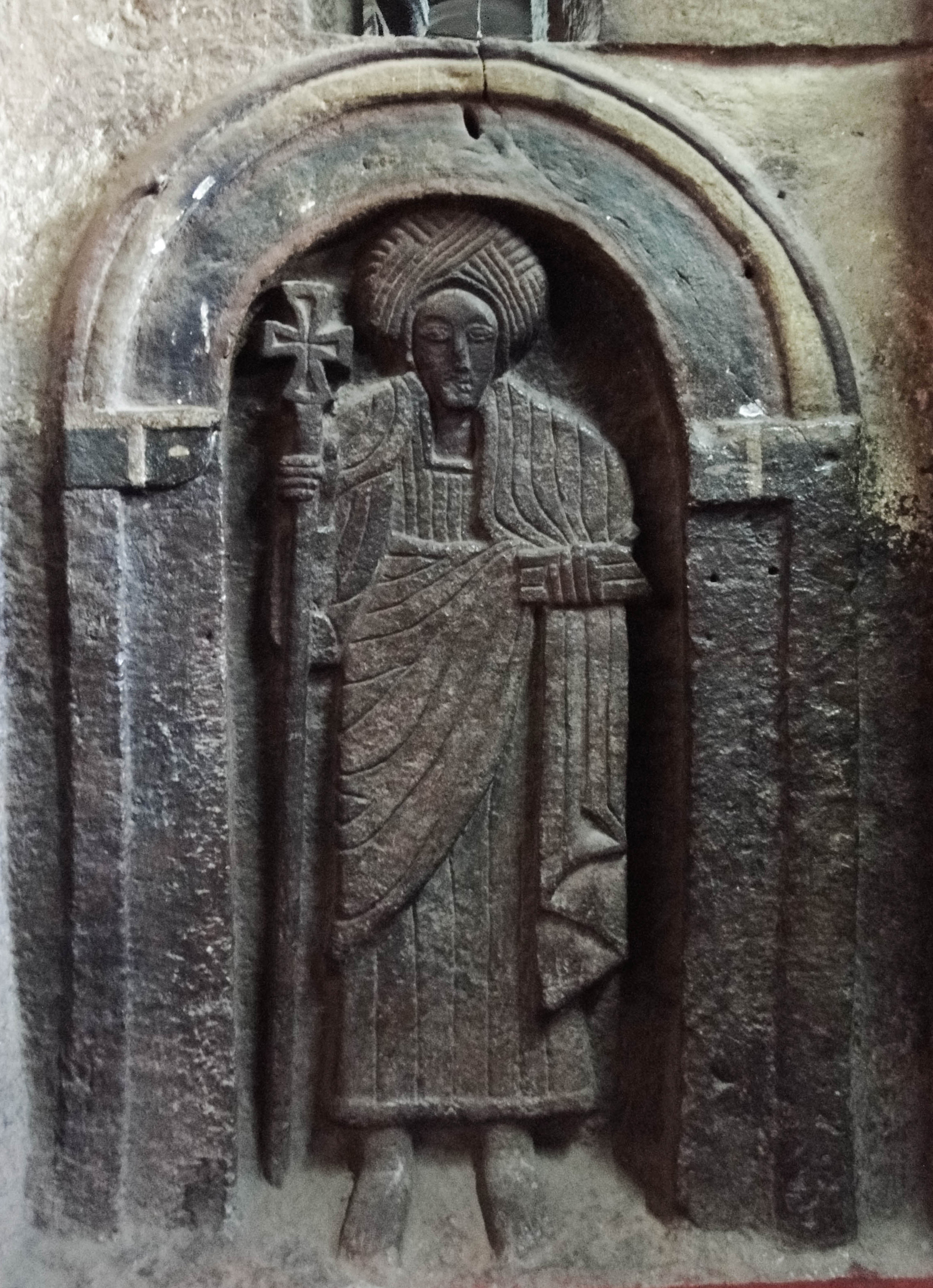 Sculpture Inside Bete Golotota-Sélassié, Lalibela, Ethiopia